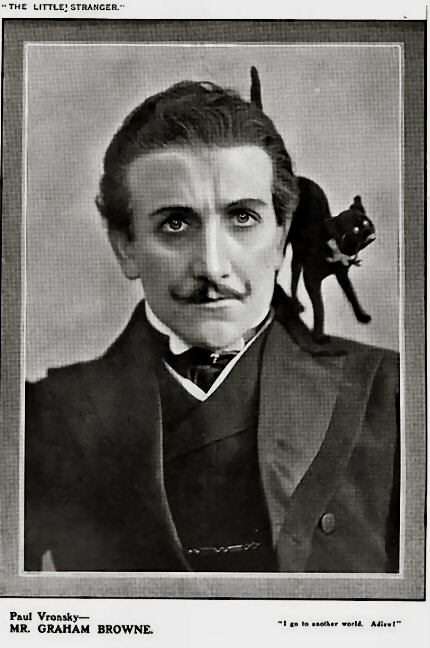 Actor William Graham Browne (nee Brown)